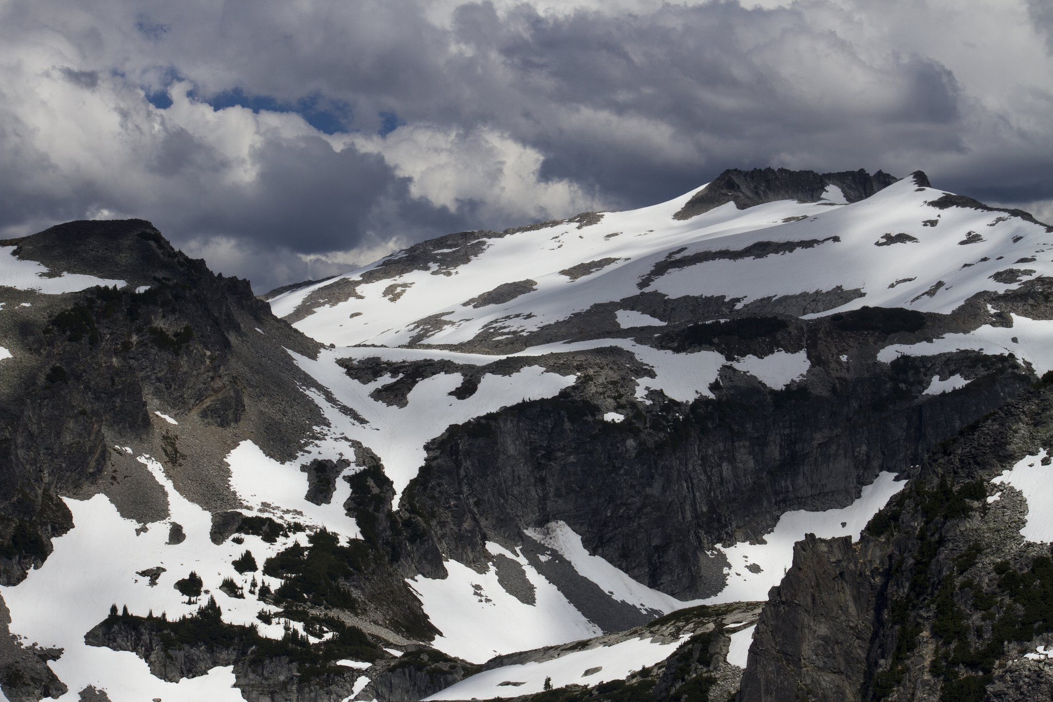 Snow on Mount Hinman, Alpine Lakes Wilderness